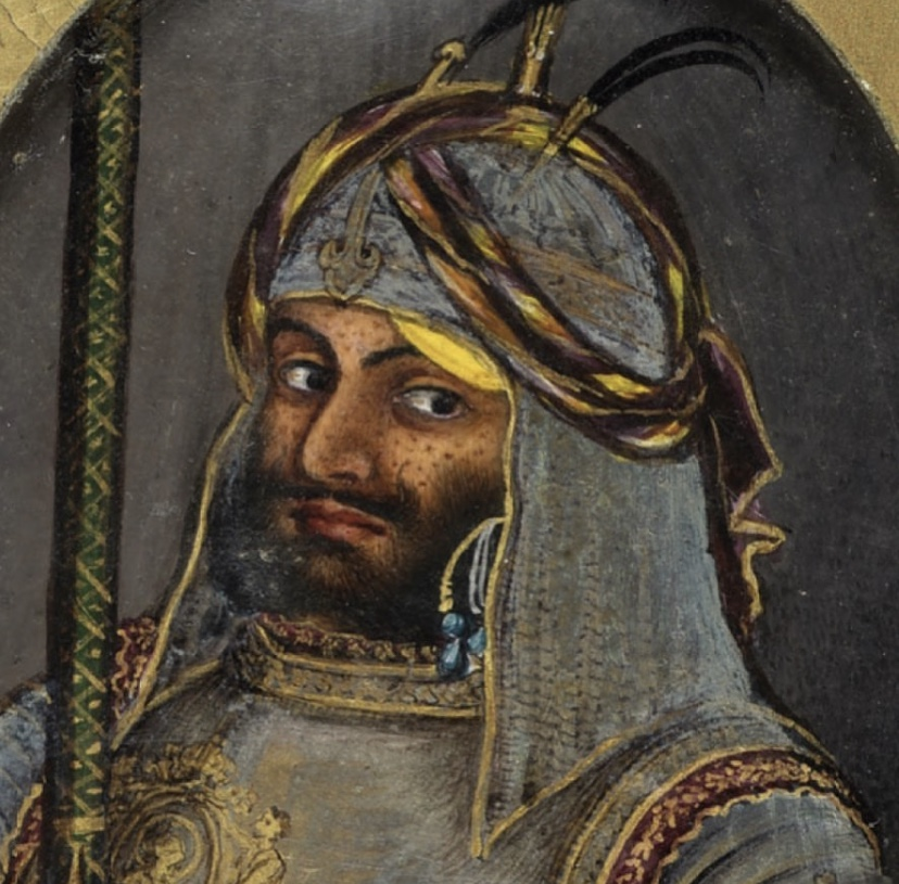 Portrait of Lal Singh painted by Imam Baksh Lahori in Lahore, Punjab, circa 1846-1849. The scars left by smallpox on Lal Singh's face are notable.